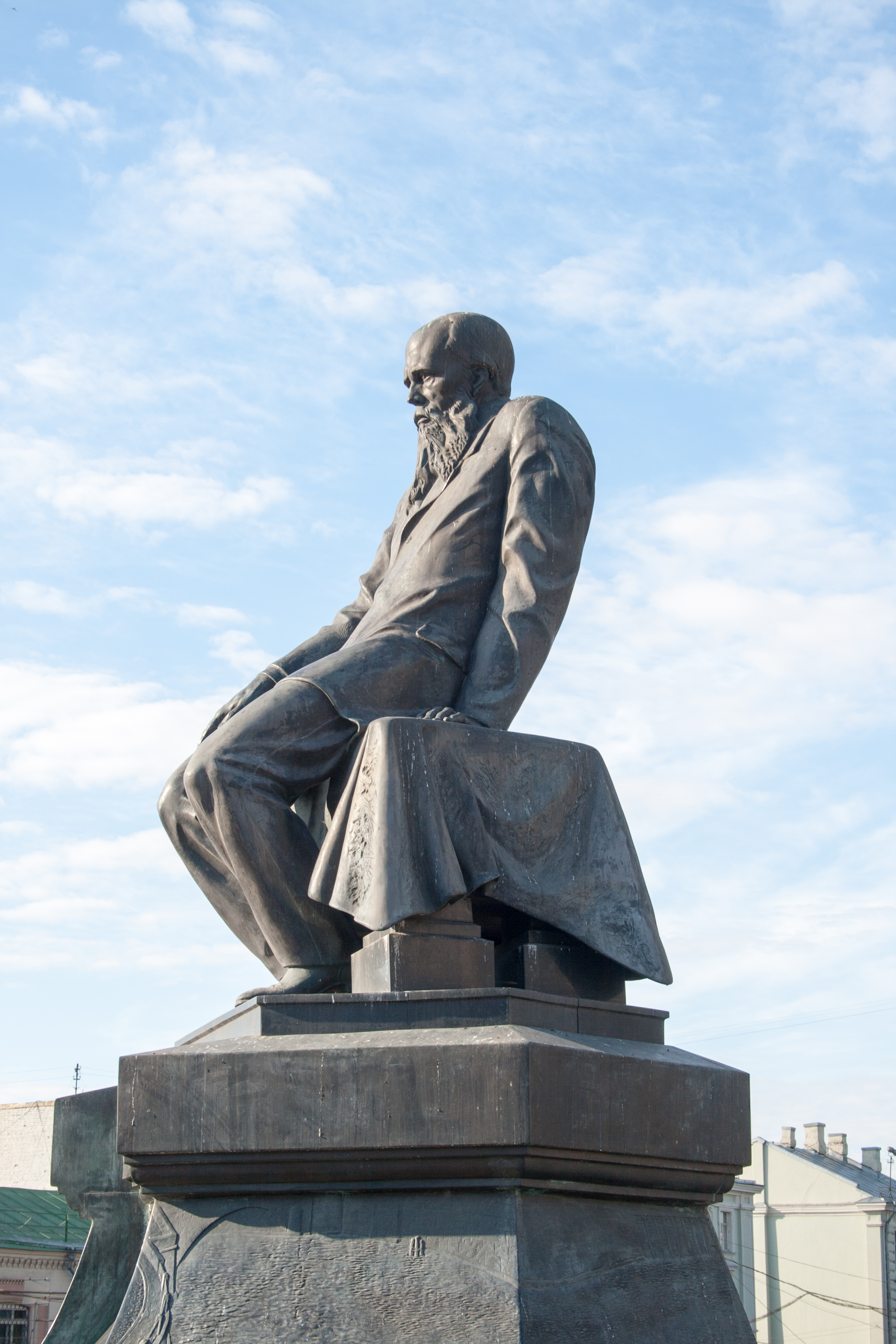 Sculpture of Dostoevsky in front of the Russian State Library